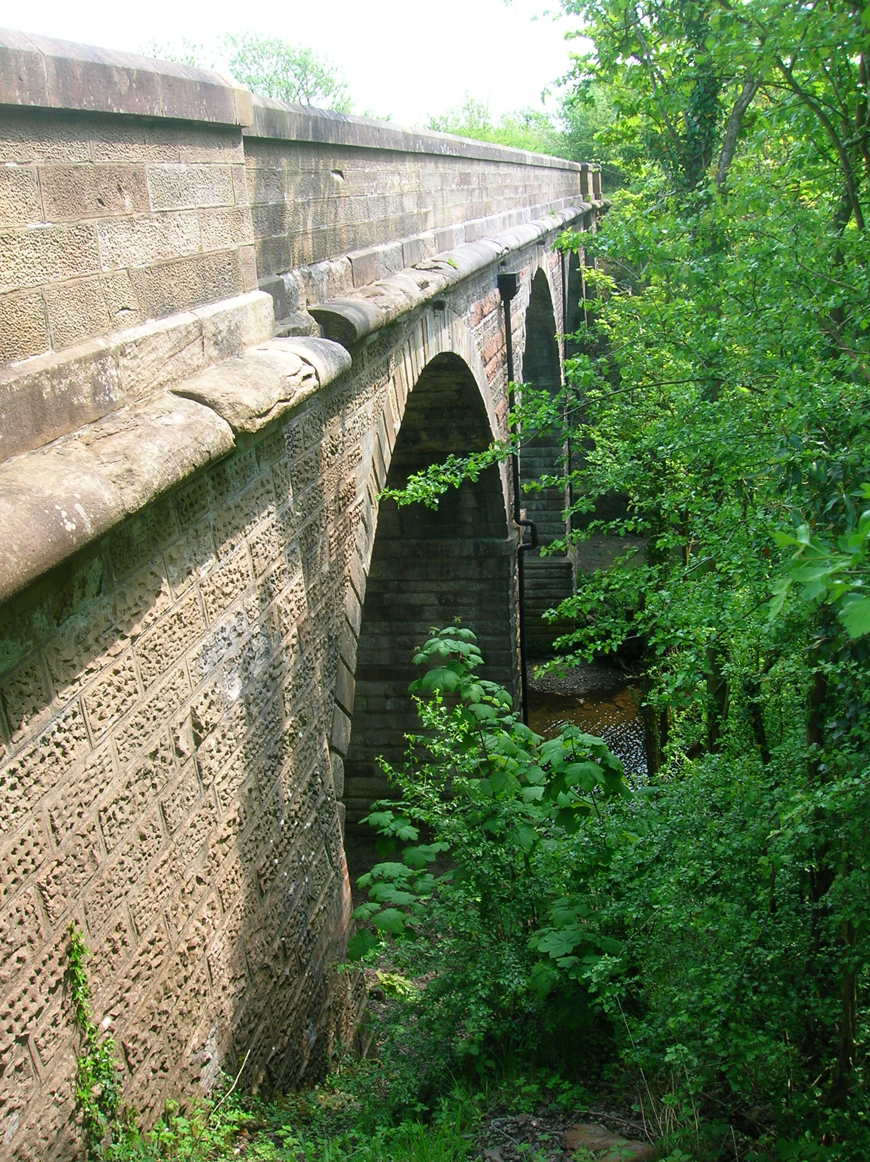 Detail of the recently restored Annick Viaduct over the Annick Water, Ayrshire, Scotland.